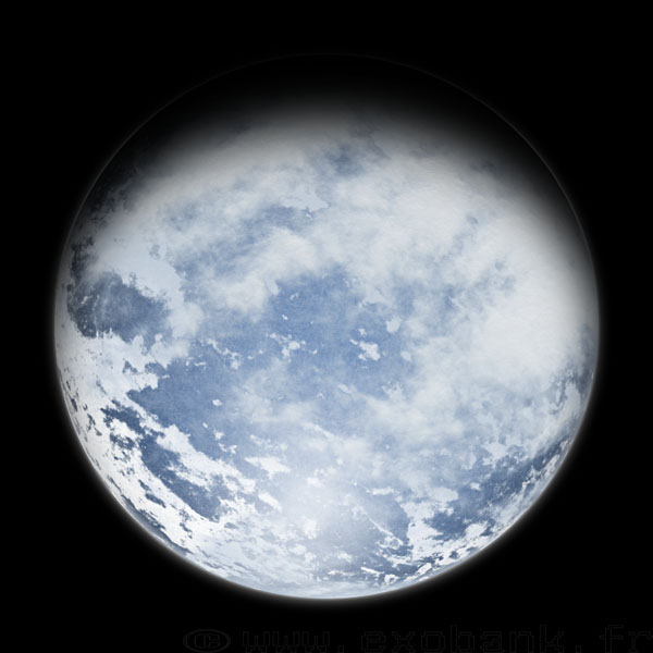 Ocean planet